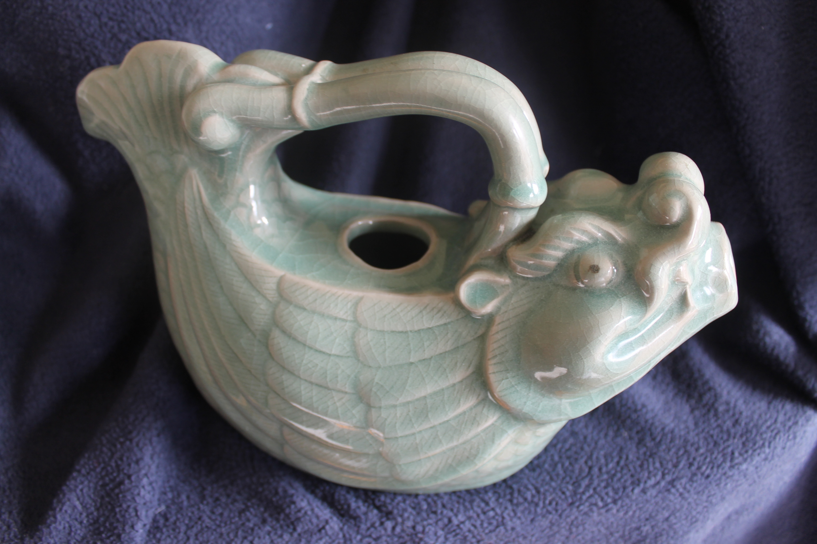 Celadon green-blue glazed Pottery Ewer 19th, Molded as Makara Dragon-Fish,liao Dynasty(907-1125)a property of my asian art collection